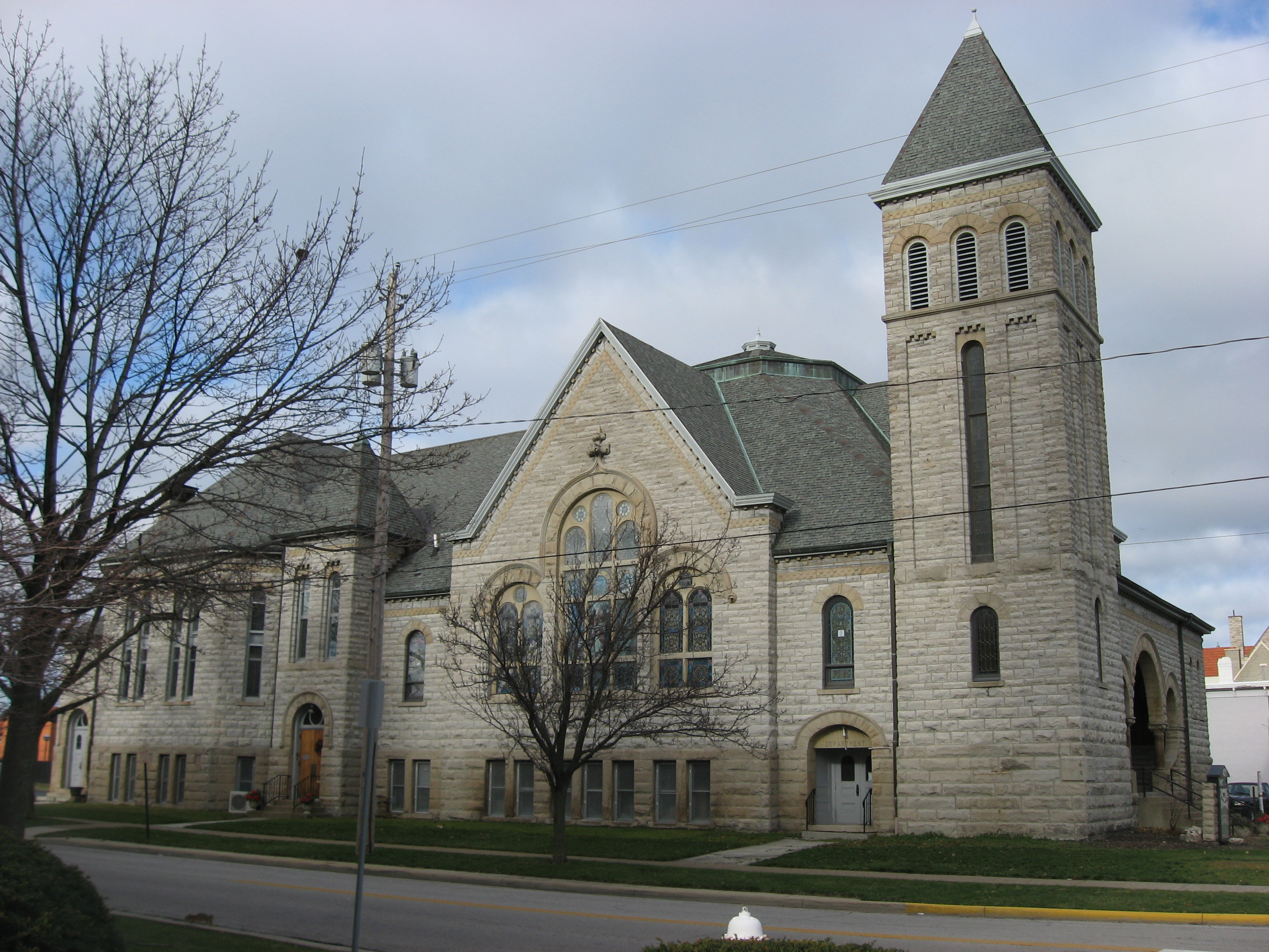 Front and southern side of First Congregational Church, located at 431 Columbus Avenue (State Route 4) in Sandusky, Ohio, United States. Built in 1895, it is listed on the National Register of Historic Places.